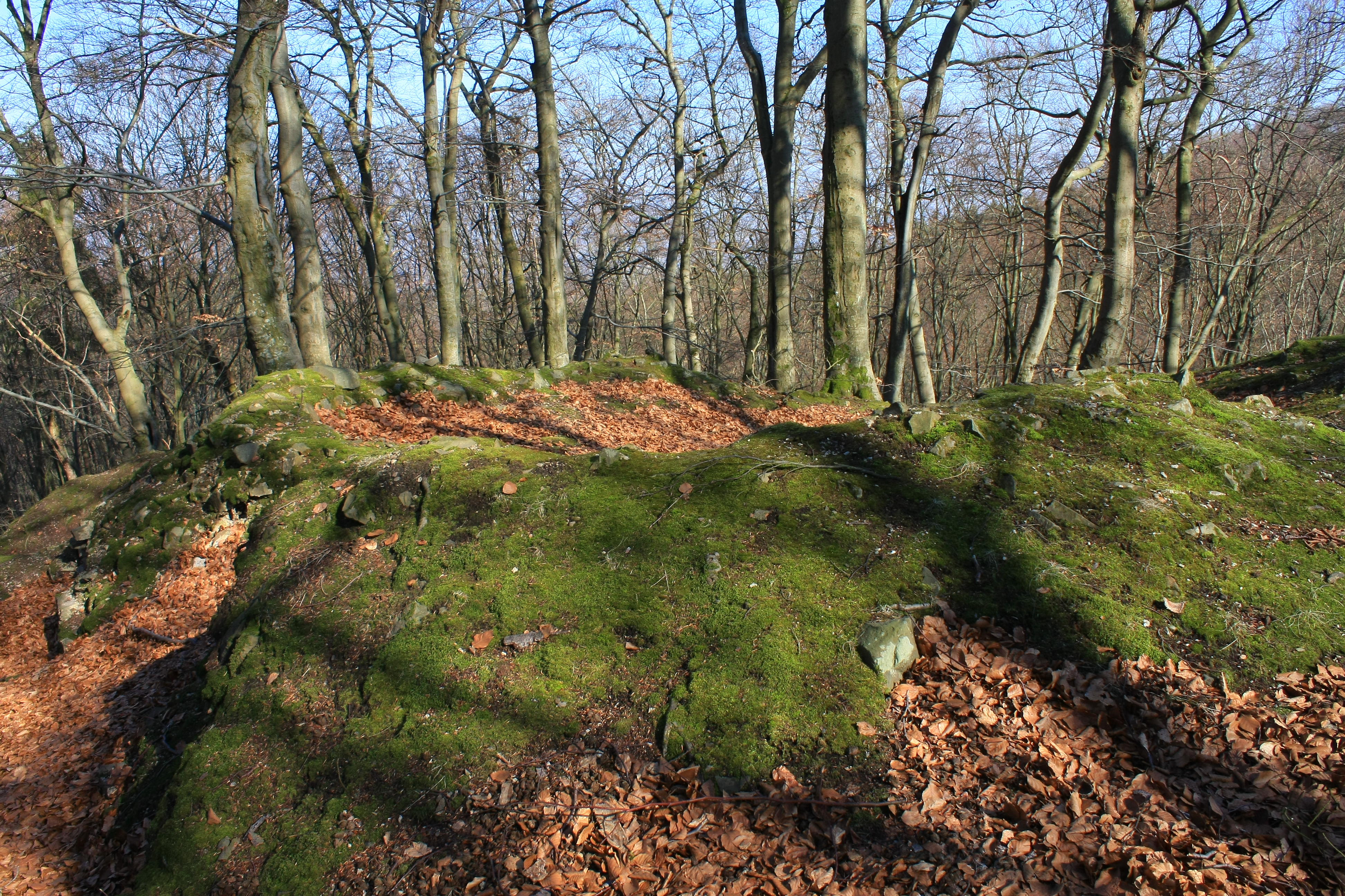 Hollende Castle near Wetter-Treisbach, Marburg-Biedenkopf District, Hesse, Germany